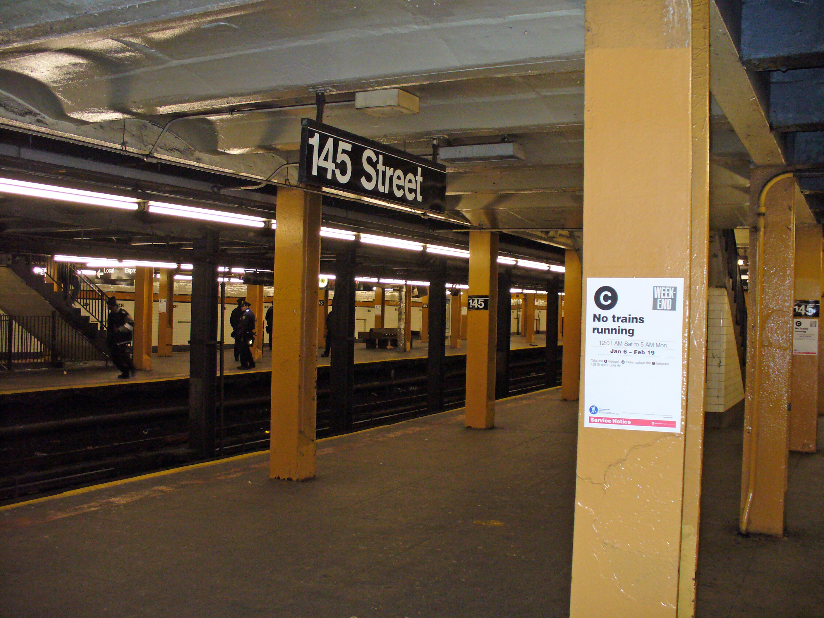 145th Street B and C New York City Subway Station by David Shankbone.